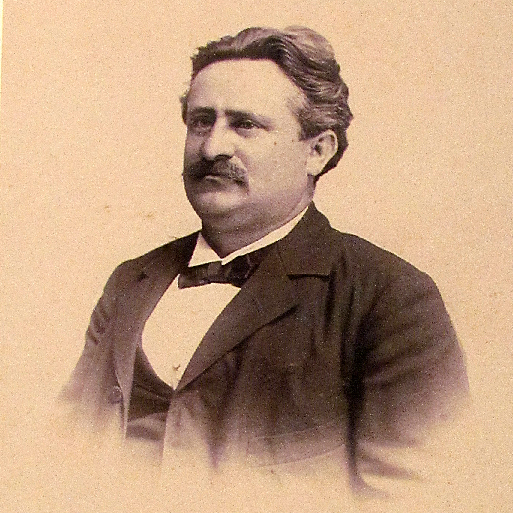 Milan Nedeljković (1857-1950), professor of astronomy